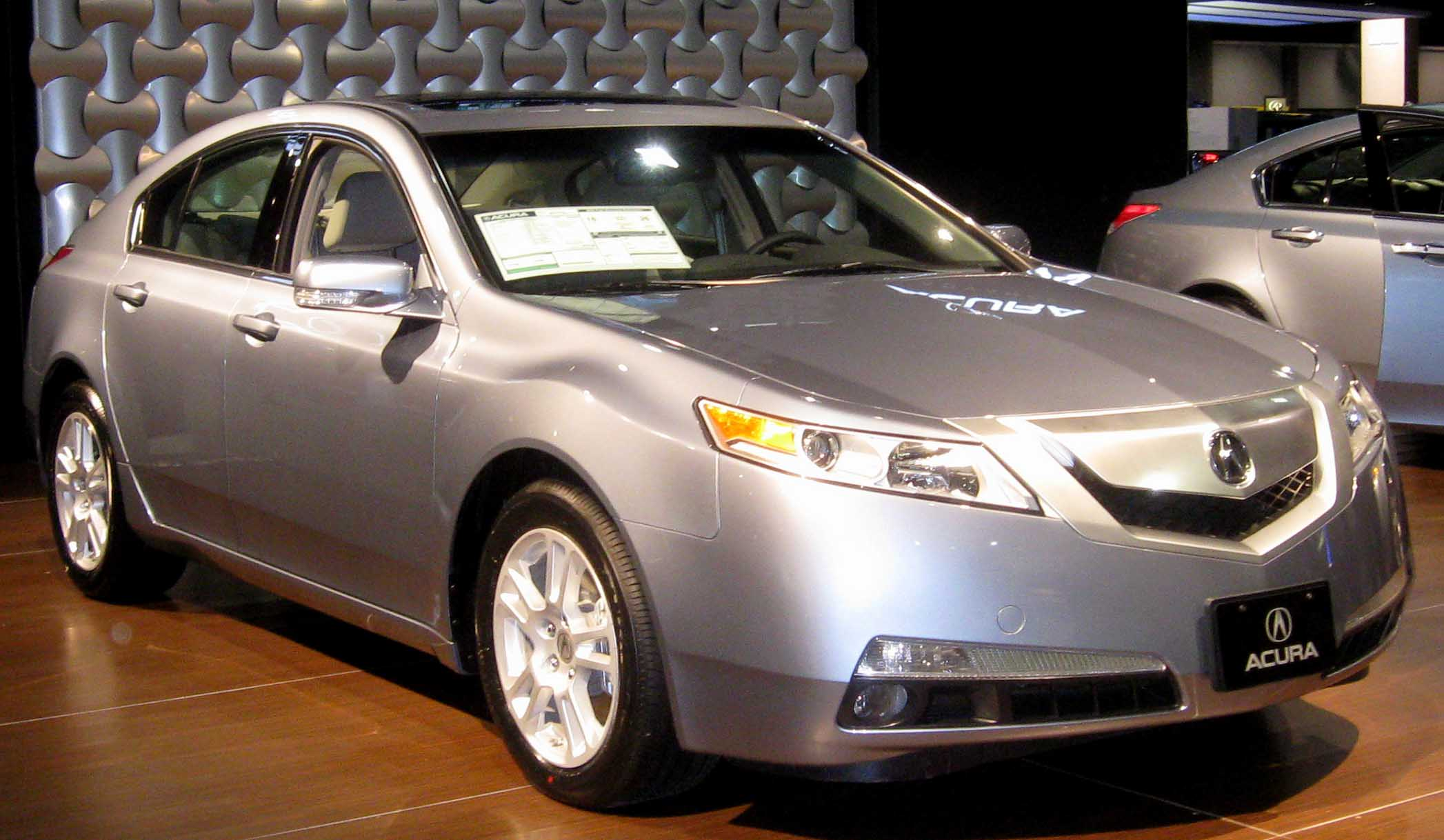 2009 Acura TL photographed at the 2009 Washington DC Auto Show.